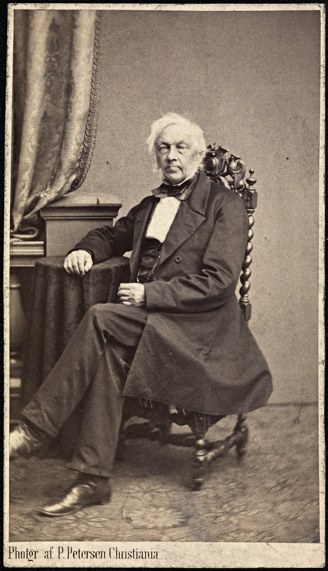 Beskrivelse / Description: Visittkort / Carte de visite. Holmboe var orientalist og numismatiker. Dato / Date: ukjent / unknown Fotograf / Photographer: P. Petersen (Christiania) Digital kopi av original / Digital copy of original: s/h papirpositiv, visittkort Eier / Owner Institution: Nasjonalbiblioteket / National Library of Norway Lenke / Link: Bildesignatur / Image Number: blds_06382